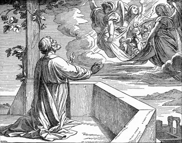 Peter's vision of a sheet with animals, from Acts 10; illustration from Henry Davenport Northrop, "Treasures of the Bible," published 1894